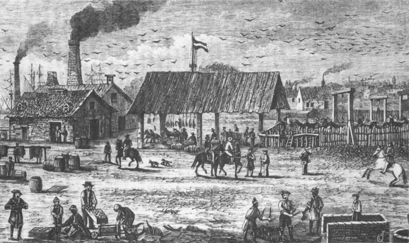 Saladero “Once de Septiembre” - Barrio Refinería, Rosario. From the book "Buenos Ayres and Argentine Gleanings" by Thomas Joseph Hutchinson